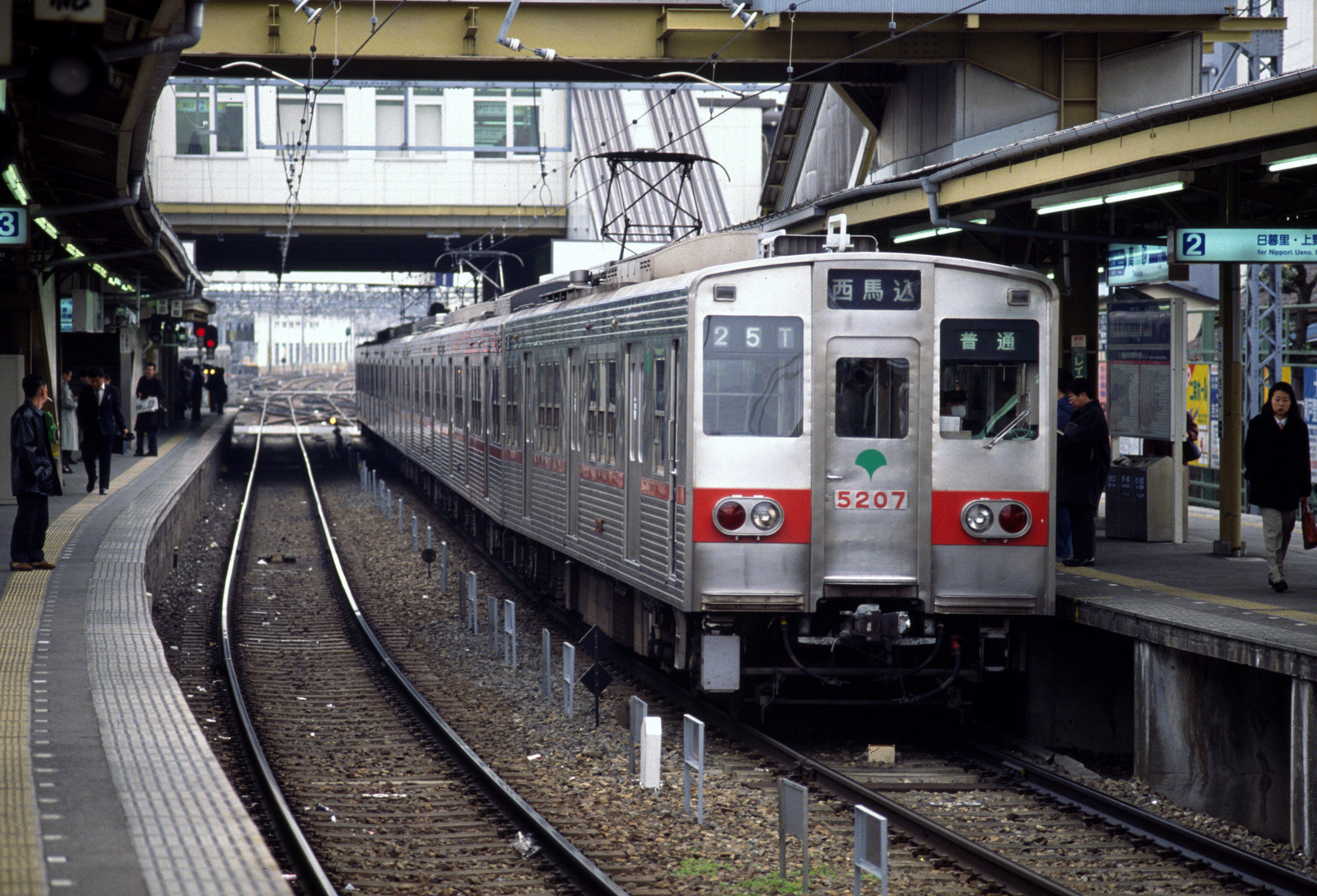 Bureau of Transportation Tokyo Metropolitan Government Subway 5207-5712. After its refurbishment